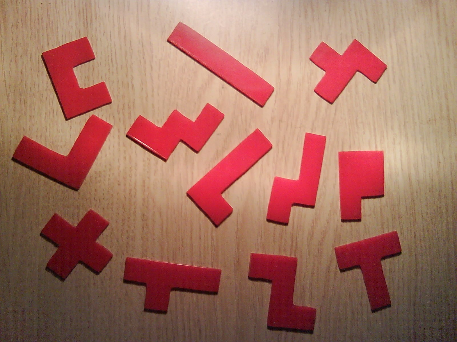 12 different pentomino tiles